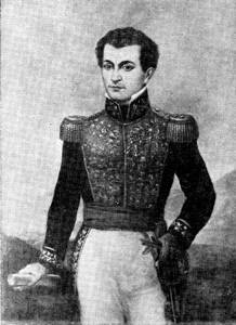 Portrait of General José Trinidad Moran